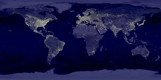 This is what the Earth looks like at night. Can you find your favorite country or city? Surprisingly, city lights make this task quite possible. Human-made lights highlight particularly developed or populated areas of the Earth's surface, including the seaboards of Europe, the eastern United States, and Japan. Many large cities are located near rivers or oceans so that they can exchange goods cheaply by boat. Particularly dark areas include the central parts of South America, Africa, Asia, and Australia. The above image is actually a composite of hundreds of pictures made by the orbiting DMSP satellites.